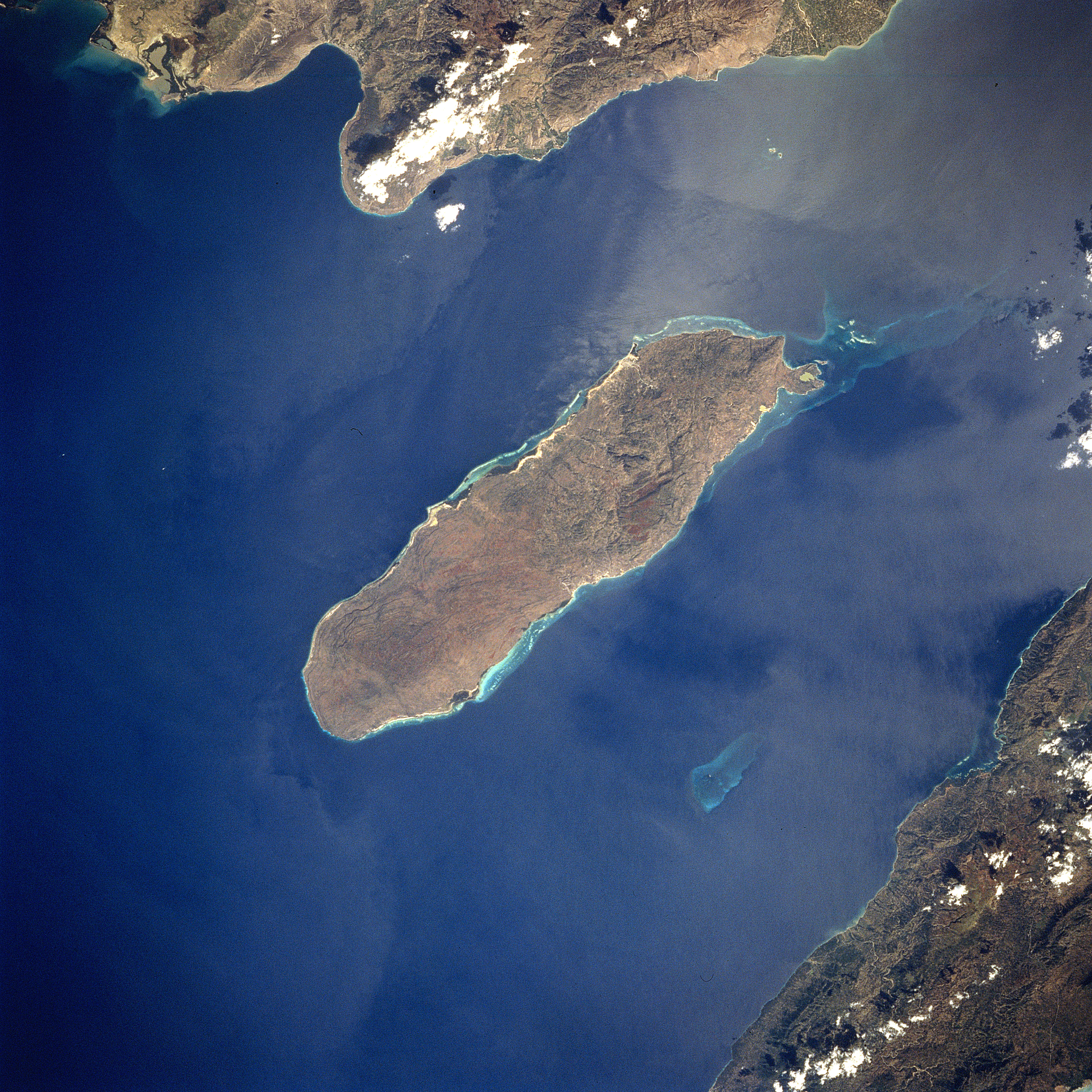 Gonave Island, Haiti - February 1994 Located to the west-northwest of Port Au-Prince, Haiti in the Gulf of Gonave, the reef- fringed island of Gonave can be seen in this near-nadir looking view. Made up of mostly limestone, the island of Gonave is 37 miles (60 km) long and 9 miles (15 km) wide and covers an area of 287 sq. miles (743 sq. km). The island is mostly barren and hilly with the highest point reaching 984 feet (300 meters). The rugged, barren, dry landscape prevents the cultivation of the land for agriculture and human population on the island is scarce. The island was once used as a base for pirates.